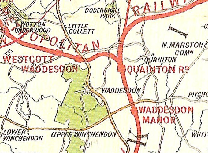 Map of railway stations, populated areas and parkland around Waddesdon Manor, 1903